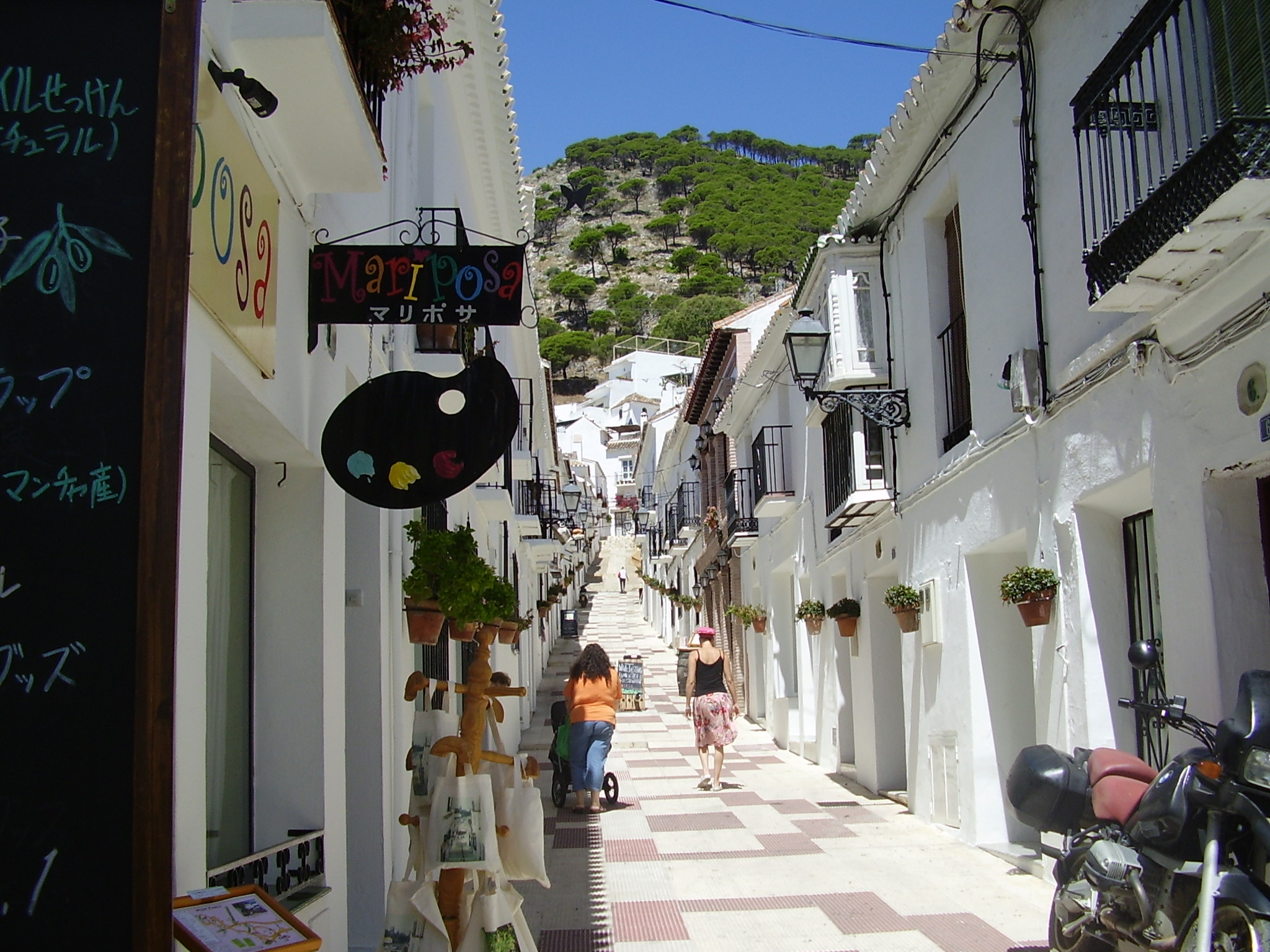 Town Mijas in Andalucia